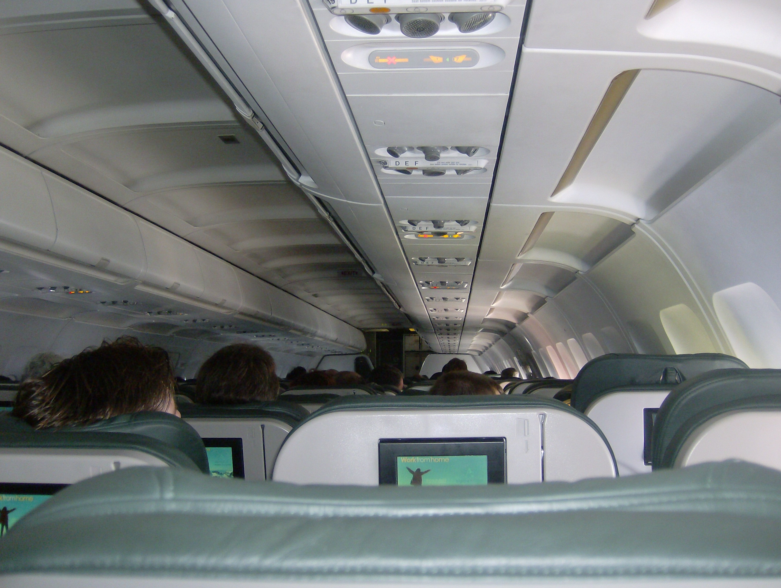 Cabin interior of Frontier Airlines